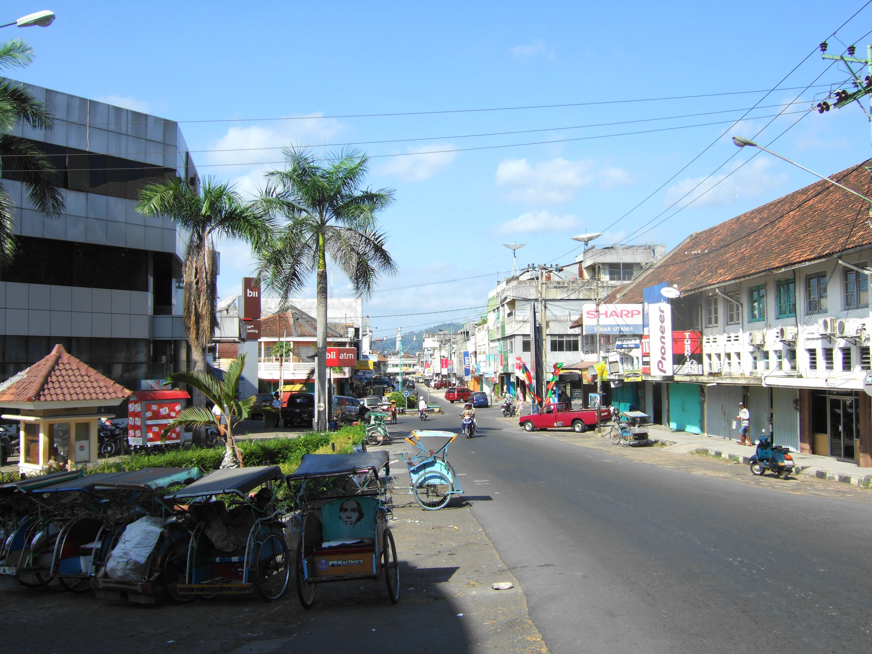 Ikan Hiu Street, Bandar Lampung, Indonesia